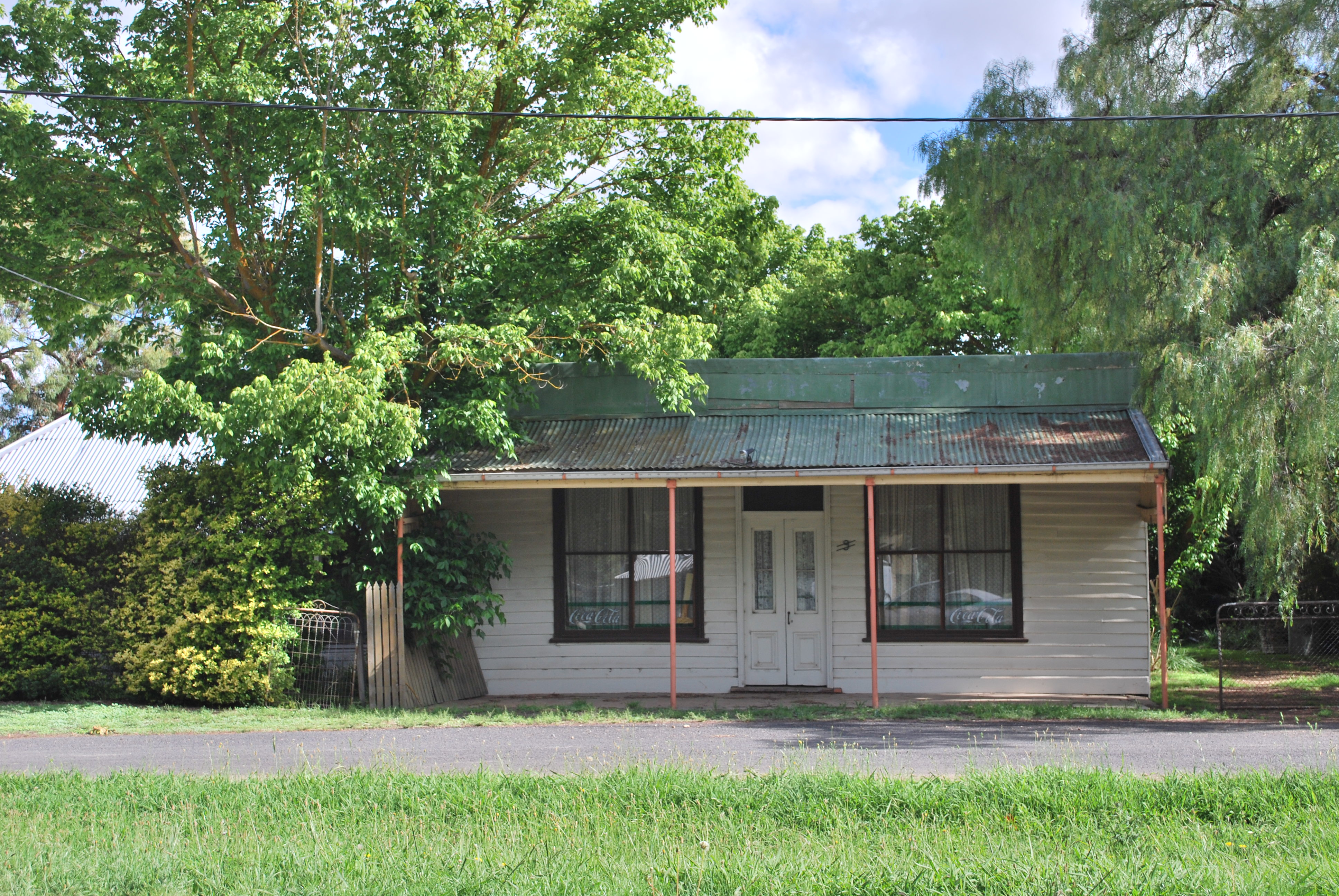 Former general store at Darraweit Guim, Victoria